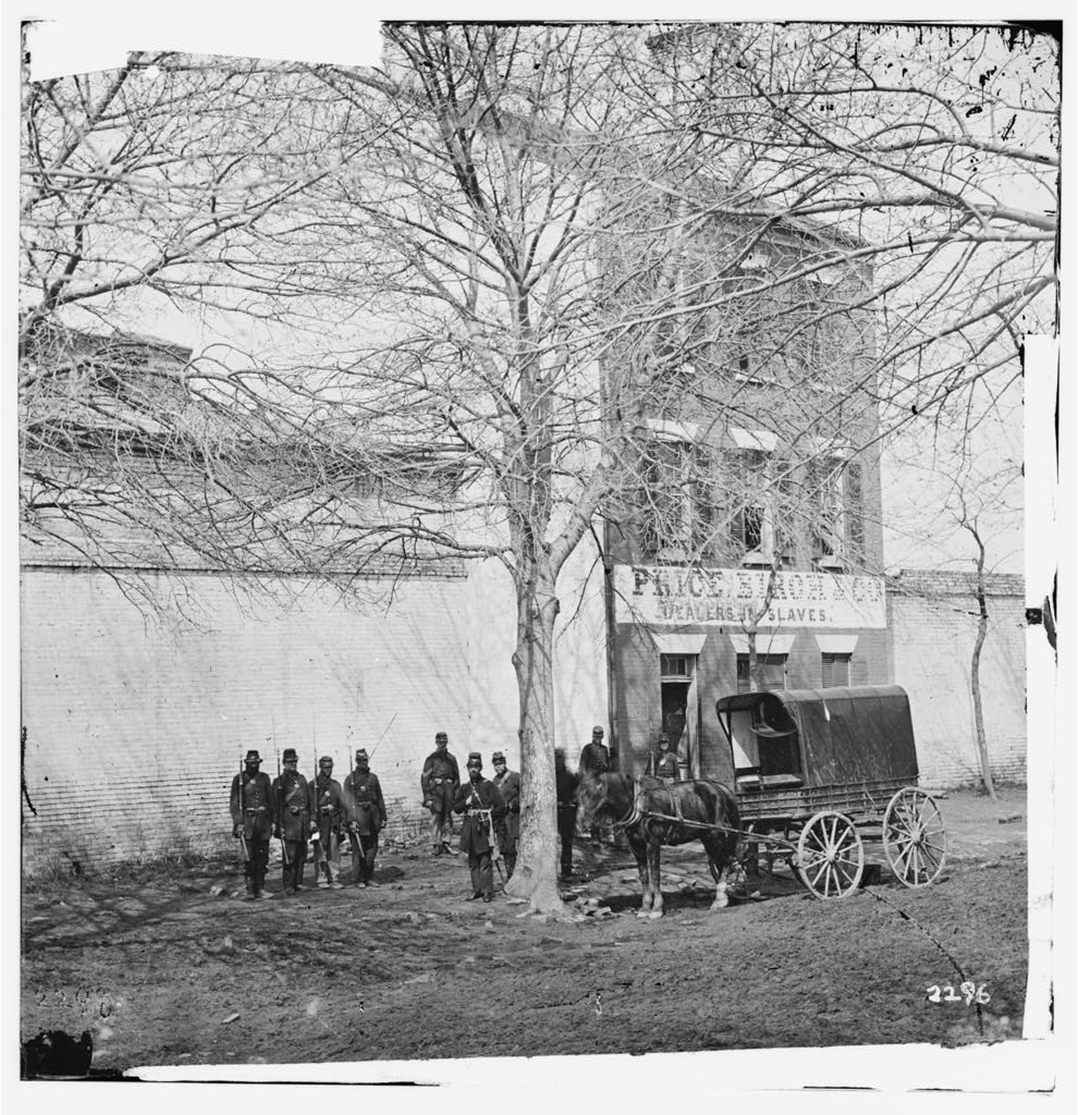 Alexandria, Virginia. Slave pen. (Price, Birch & Co. dealers in slaves)